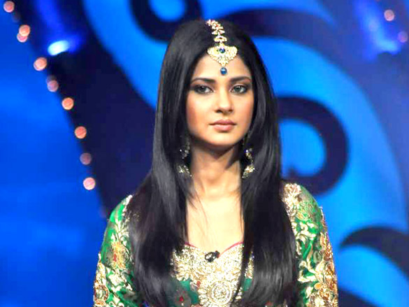 Winget on the sets of 'Nachle Ve with Saroj Khan'